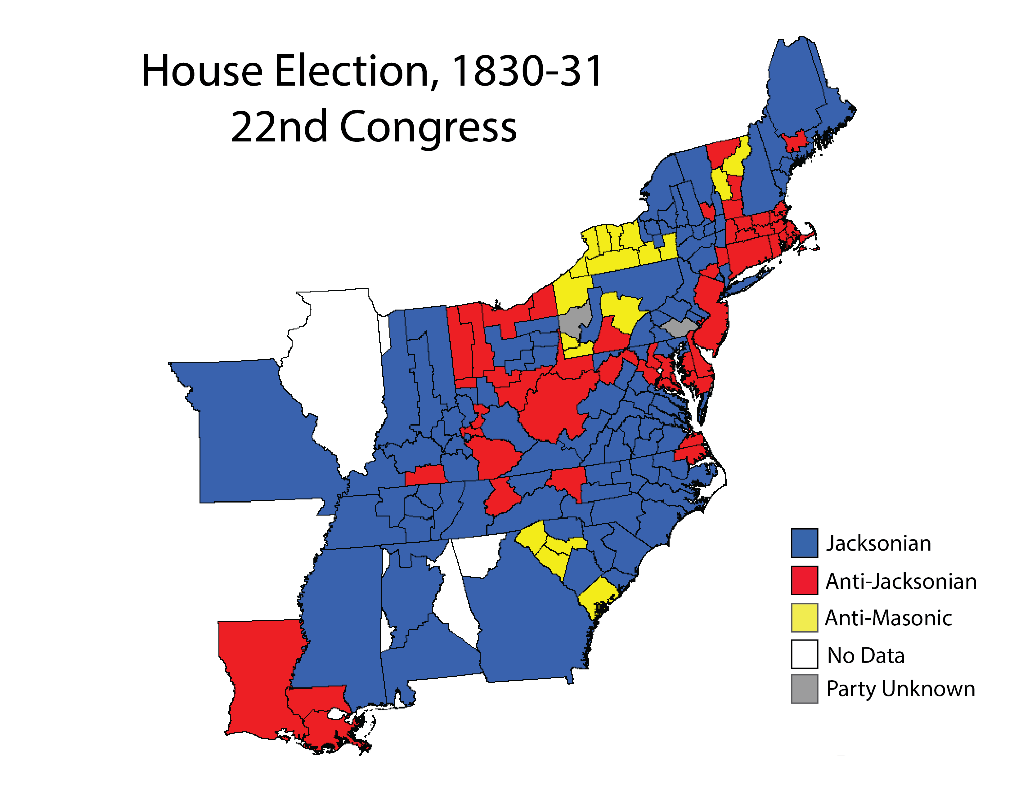 Map of U.S. House elections results from 1830-31 elections for 22nd Congress